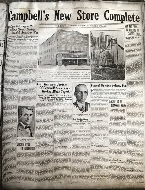 Newspaper Article